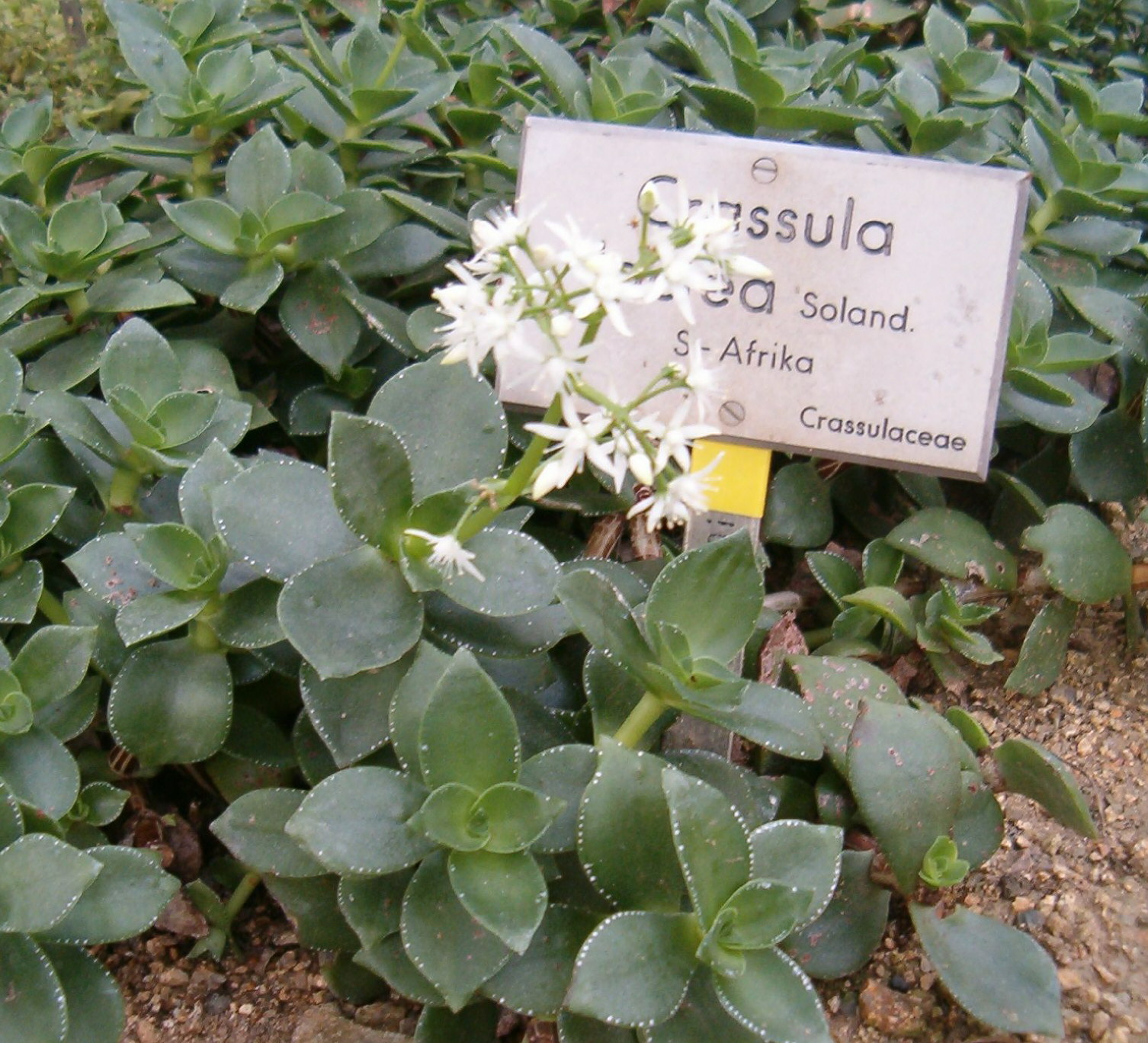 Location: Botanical Gardens Berlin Dahlem Xerophyt